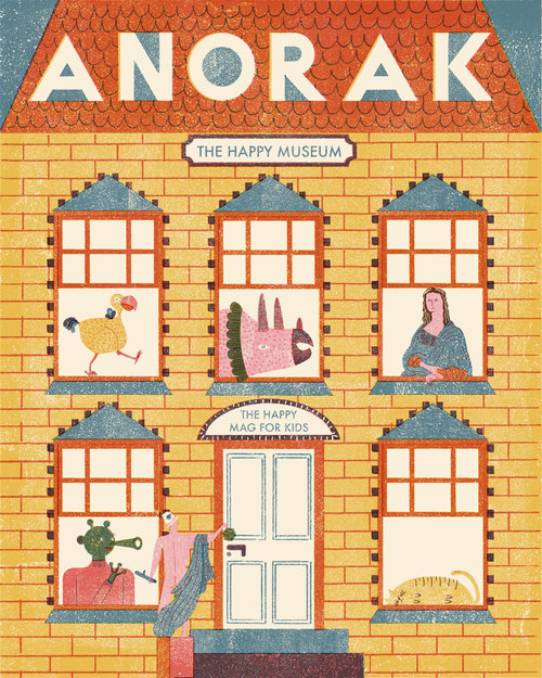 Front cover